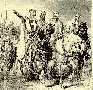 A romantic 19th century vision of Godfrey and leaders of the first crusade